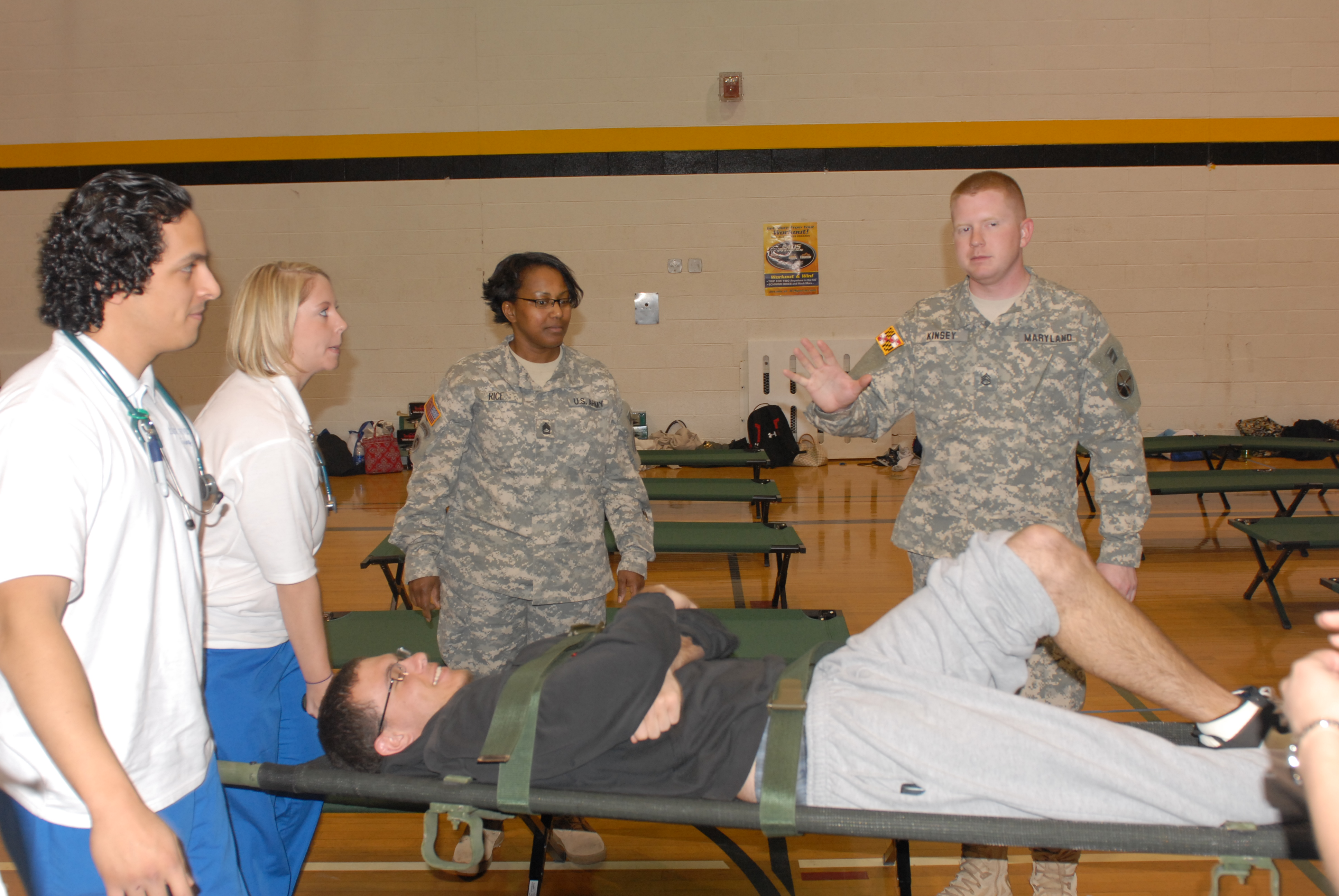 Nearly 75 members of the Maryland Defense Force participated in a major multi-agency disaster exercise at Towson University on April 14, 2010, alongside Maryland Army National Guard Soldiers from the state medical detachment and the 224th Area Support Medical Company. The exercise involved nearly 1000 participants, including several hundred Towson University students who volunteered to be “casualties” and more than 300 Towson University nursing students who trained with MDDF participants and Maryland National Guard medical personnel. Maryland Guard Soldiers and Defense Force participants were responsible for a number of tasks to include triage instruction, medical treatment of injured victims, mentoring nursing students, mental health support and referrals, security, communications and establishment of an operations center and field treatment center. The Maryland Defense Force is a volunteer, uniformed agency of the Maryland Military Department, authorized by Maryland law, with a mission to provide competent professional and technical support to the Maryland National Guard and state civil agencies as ordered by the governor and the adjutant general.